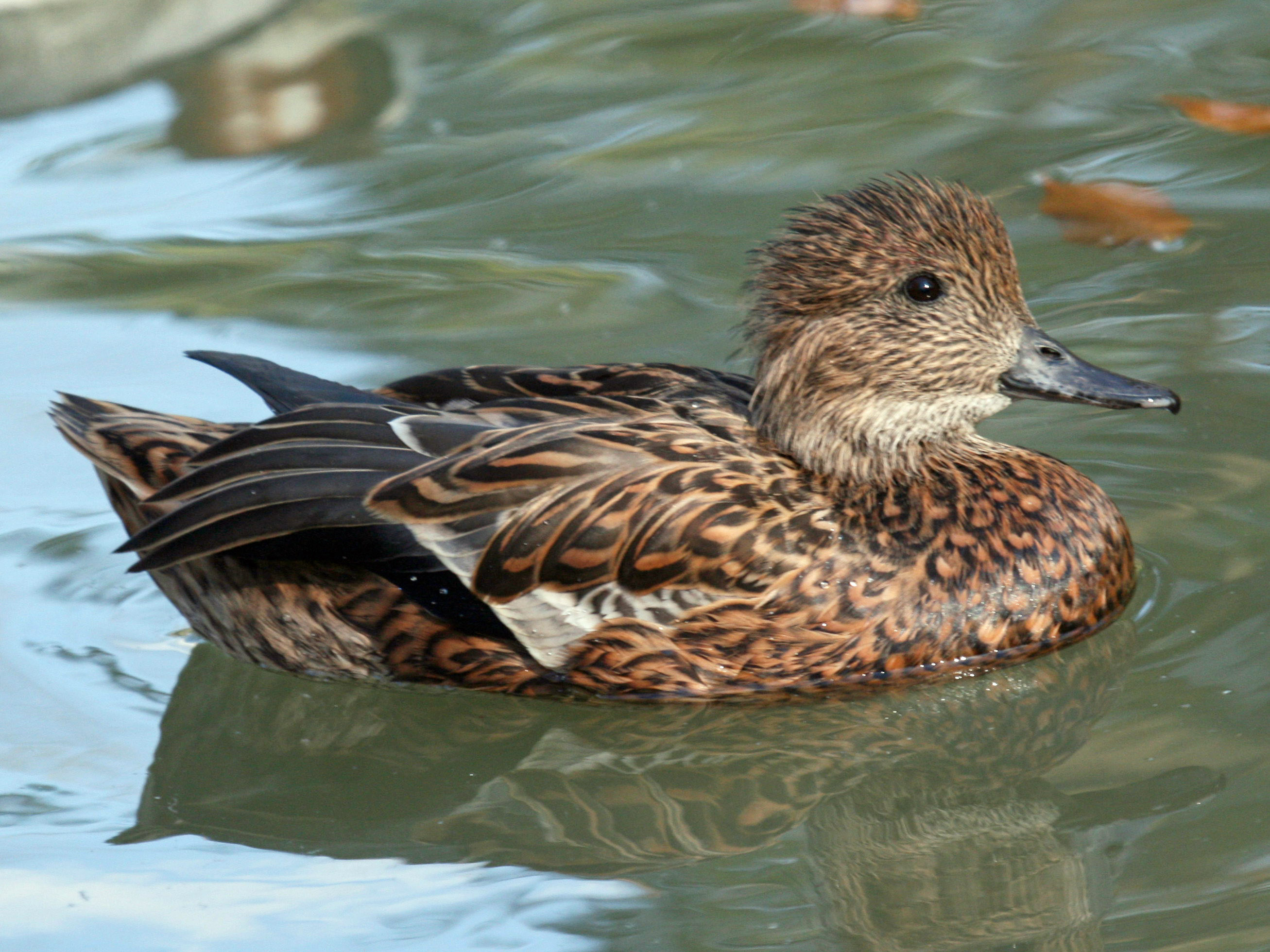 ♀ Falcated Duck (Anas falcata) at Sylvan Heights Waterfowl Park in Scotland Neck, North Carolina.